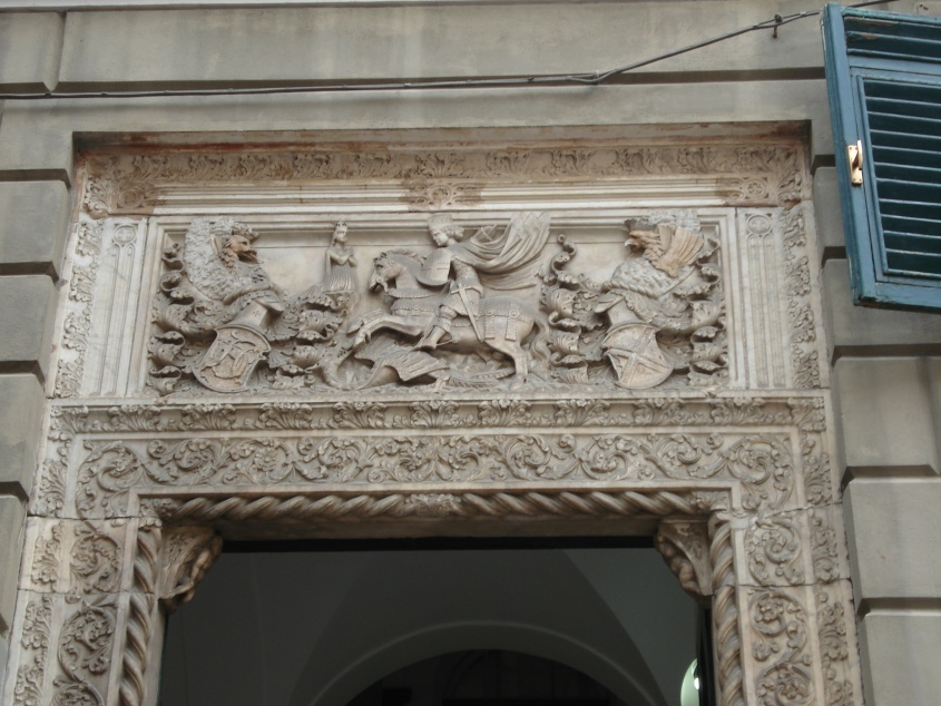 Doria Danovaro Palace in Genova